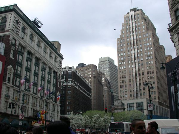 Looking north across Herald Square in Manhattan, looking up Broadway in April 2002 © 2004 Matthew Trump